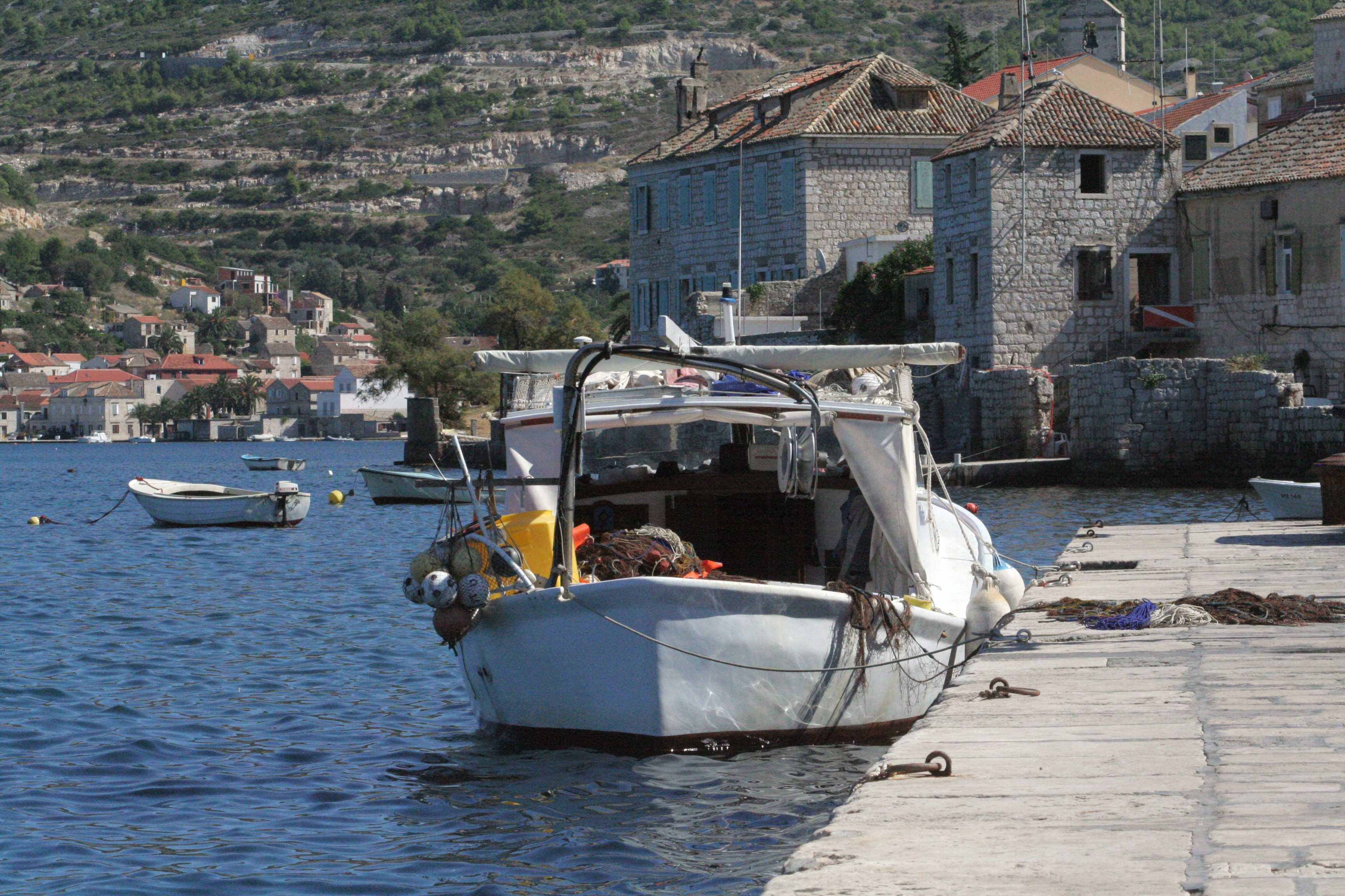 Vis town, mooring.